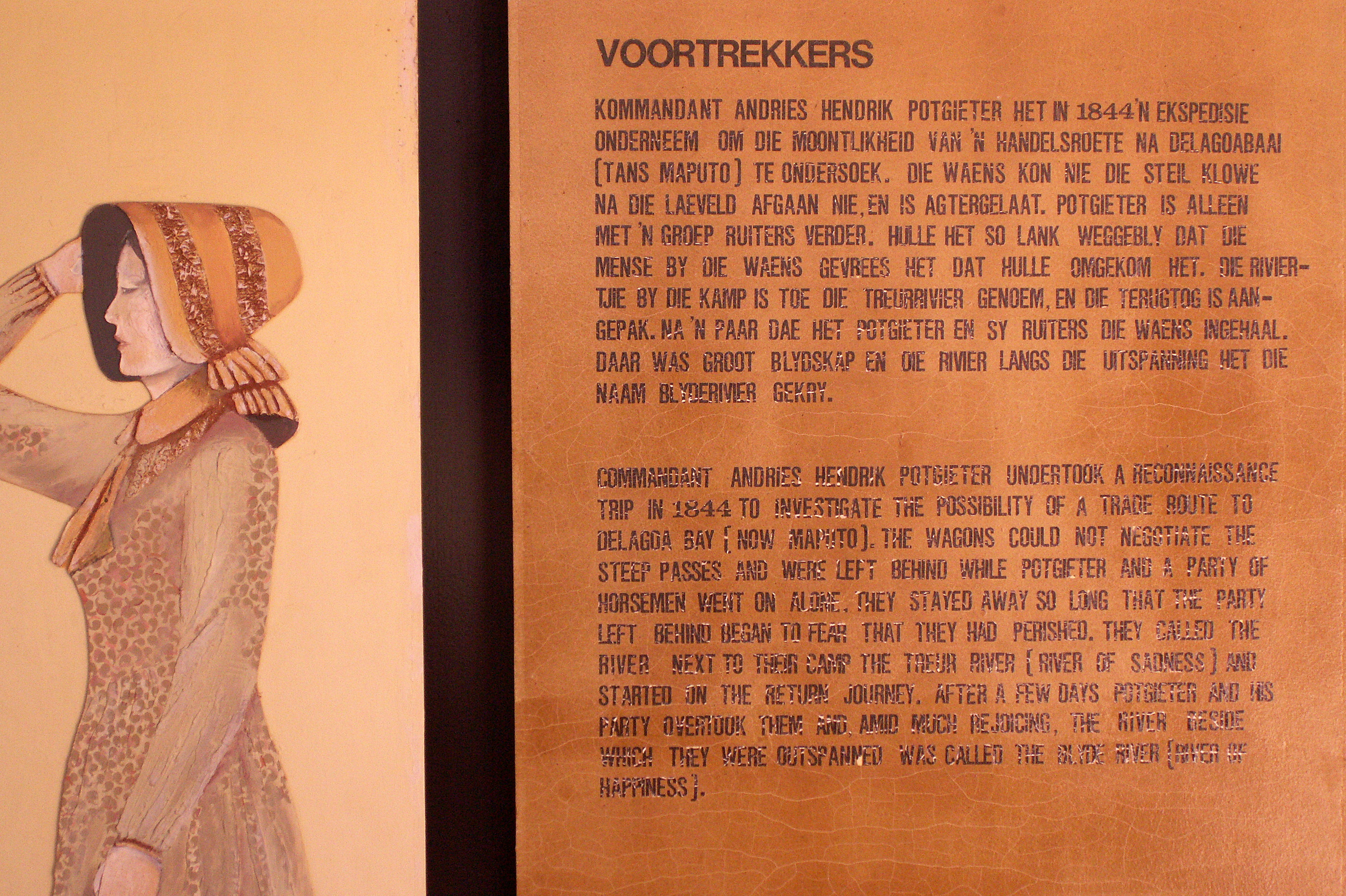 Voortrekker information board: Commandant Andries Hendrik Potgieter undertook a reconnaissance trip in 1844 to investigate the possibility of a trade route to Delagoa Bay (now Maputo). The wagons could not negotiate the steep passes and were left behind while Potgieter and a party of horsemen went on alone. They stayed away so long that the party left behind began to fear that they had perished. They called the river next to their camp the Treur River (River of Sadness) and started on the return journey. After a few days Potgieter and his party overtook them, and amid much rejoicing, the river beside which they were outspanned was called the Blyde River (River of Happiness).